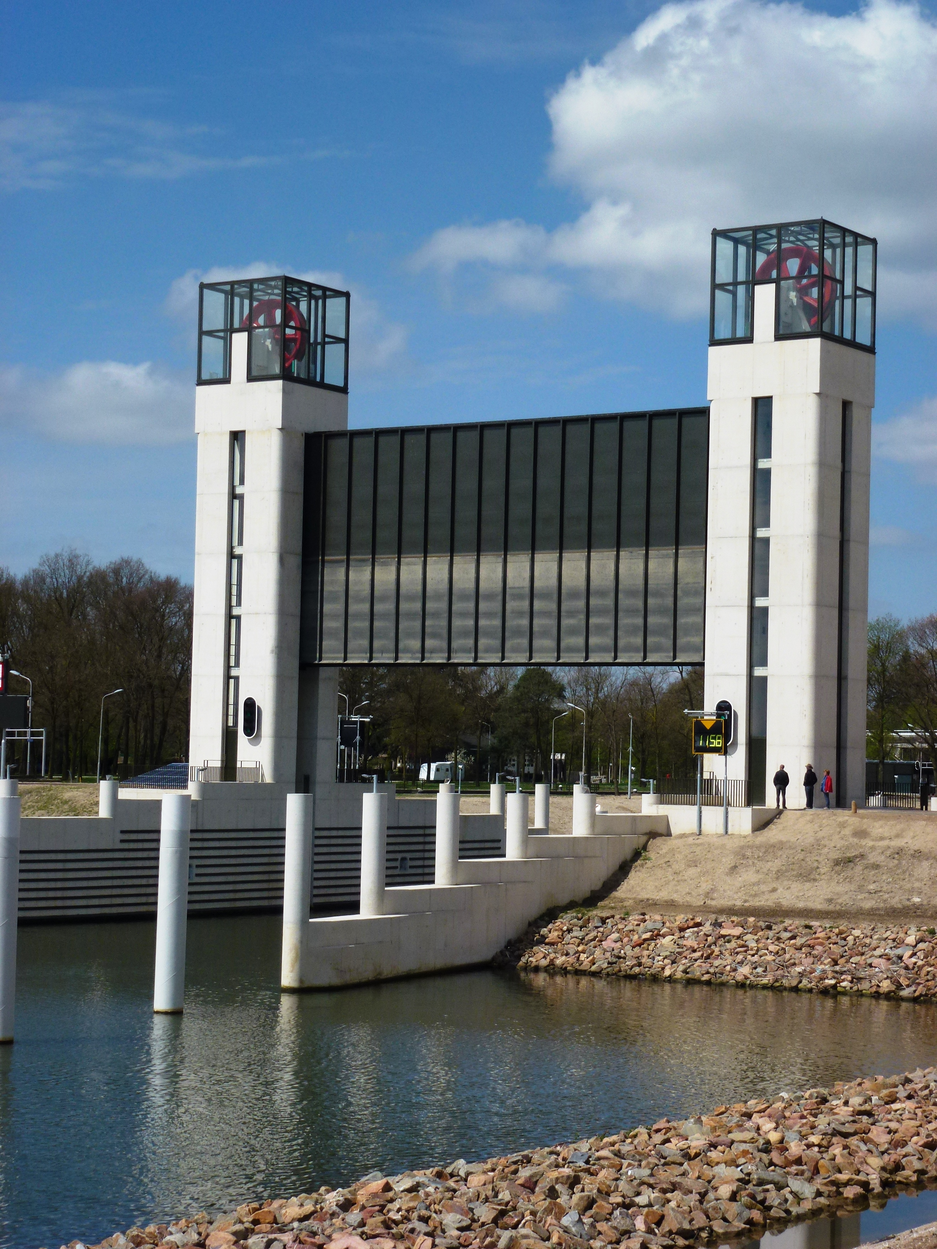 Heumen, nieuwe sluis 06 sluisdeur zuidzijde